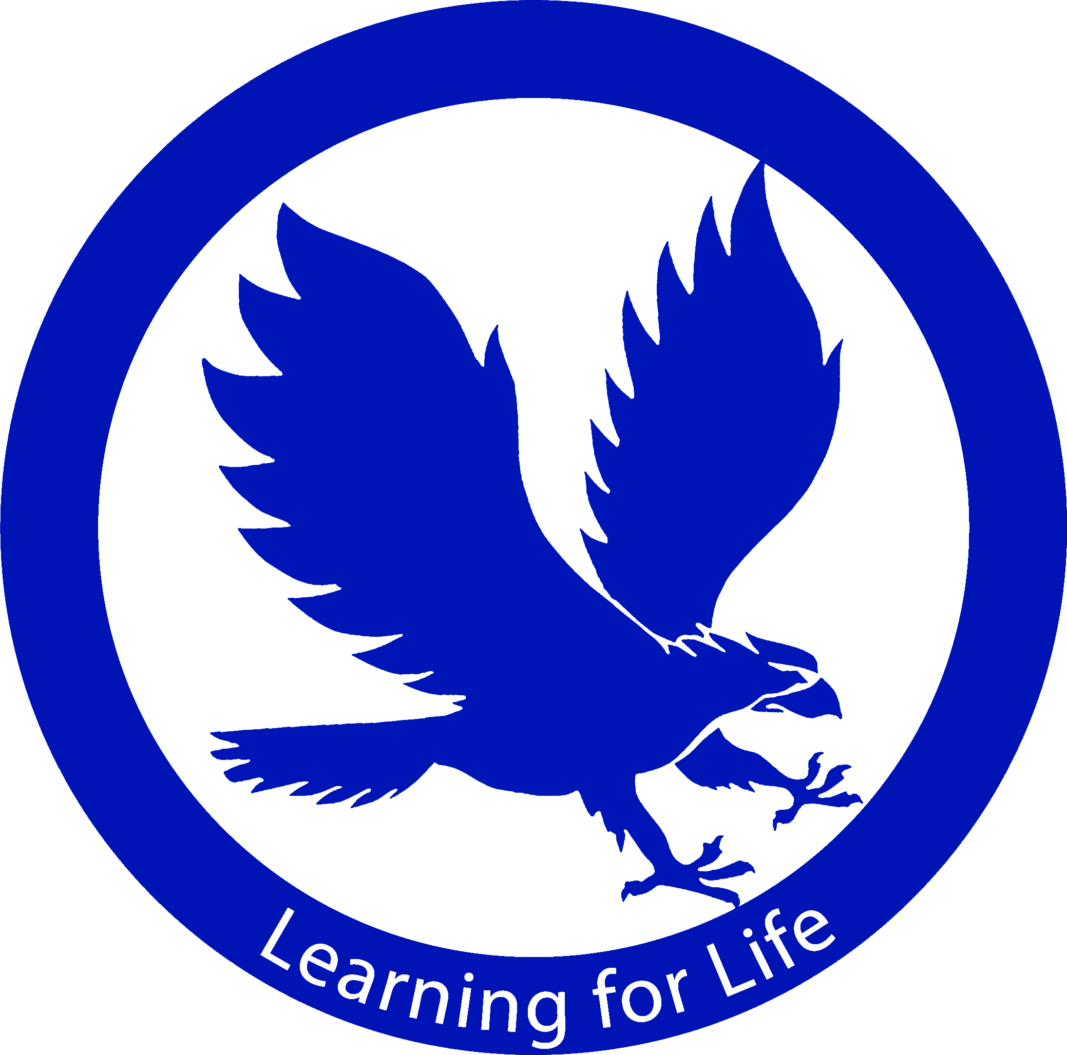 Culcheth High School Logo